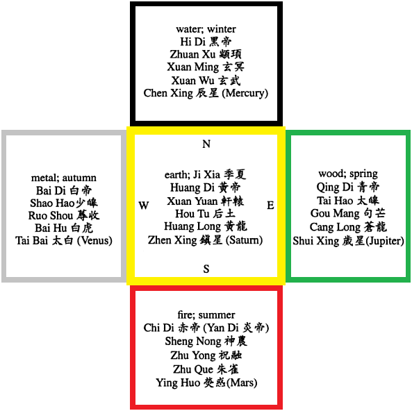 Chinese traditional religious cosmology of the Wǔfāng Shàngdì (五方上帝 "Five Forms of the Highest Deity") with the Yellow Deity (the Four-Faced God) at the centre of the universe, emanating the other four cosmological deities of directions and seasons.